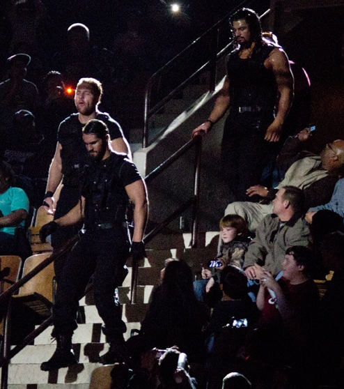 Professional wrestling group The Shield (Dean Ambrose, Seth Rollins, Roman Reigns) making their way to the ring.